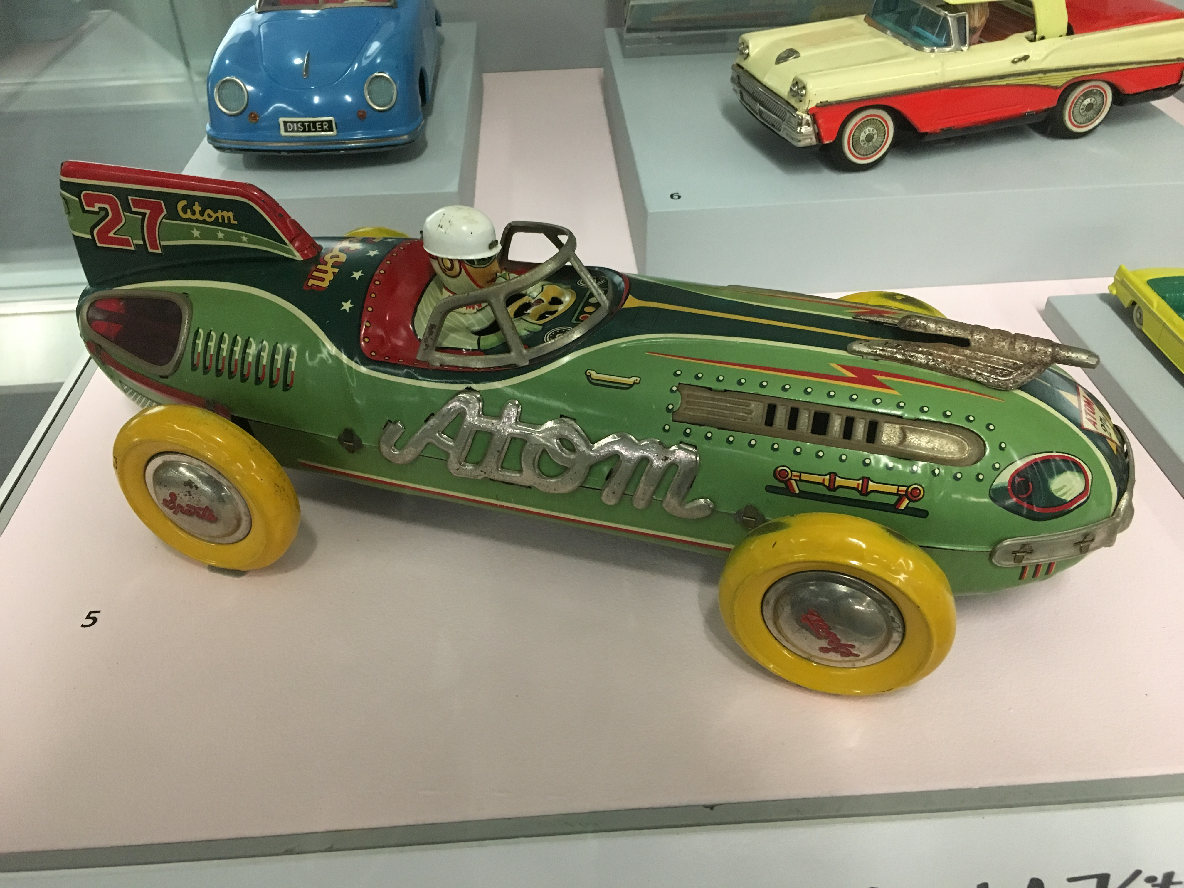 A toy car manufactured by Yonezawa Toys in Japan in 1950 and sold in the United States.